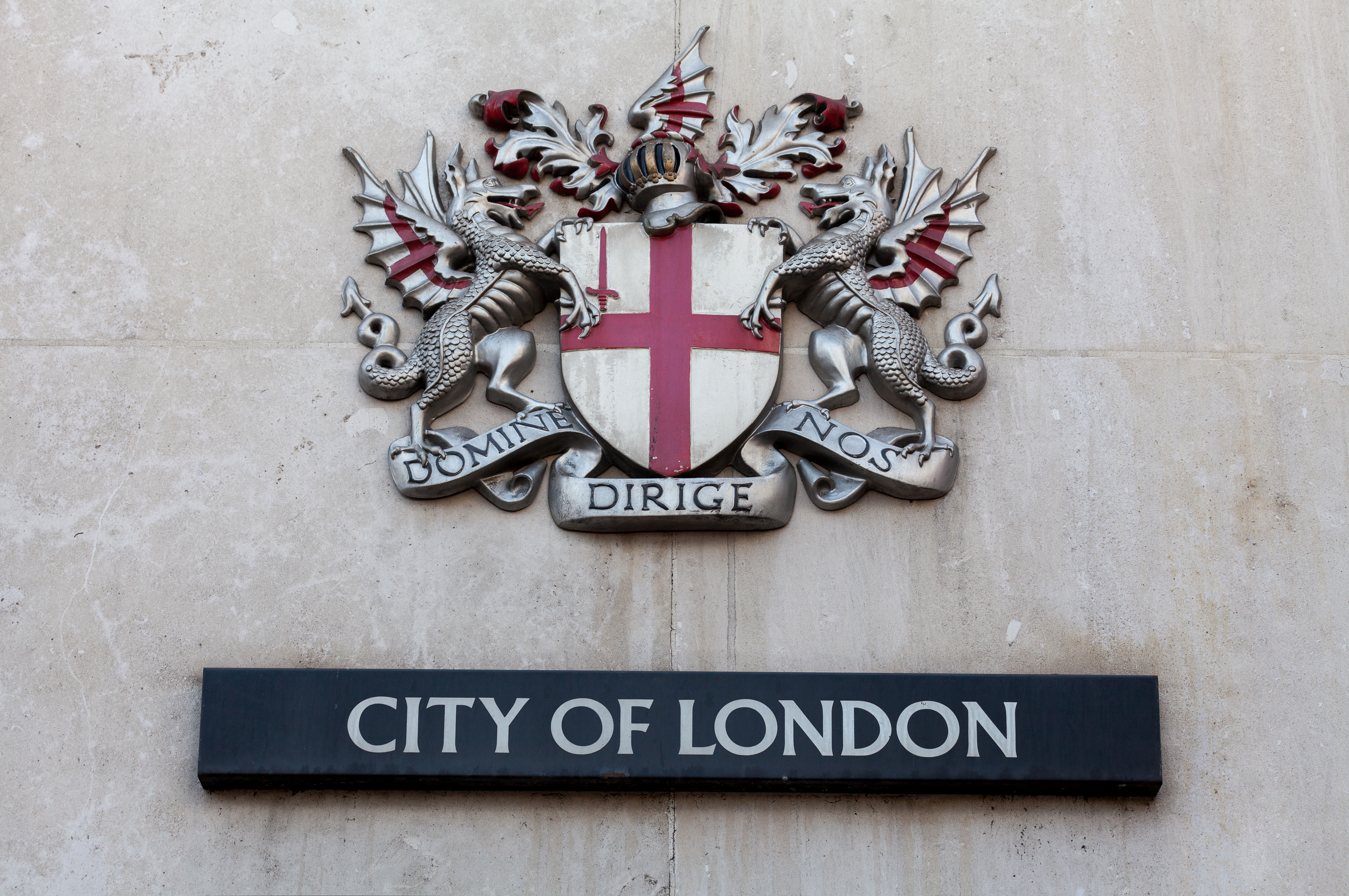 Coat of arms of the City of London Corporation as seen on the entrance of City Thameslink.